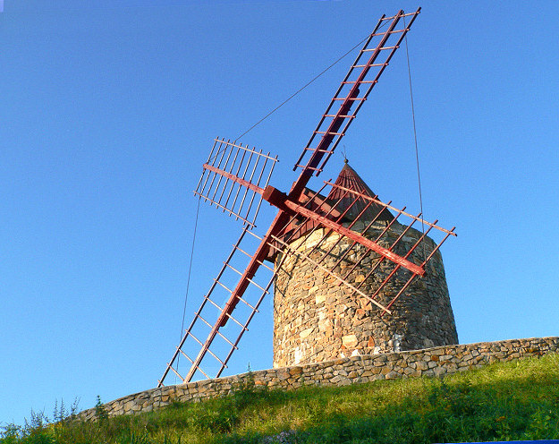 Windmill from Provence, France, at the International Wind- and Watermill Museum, Gifhorn, Germany